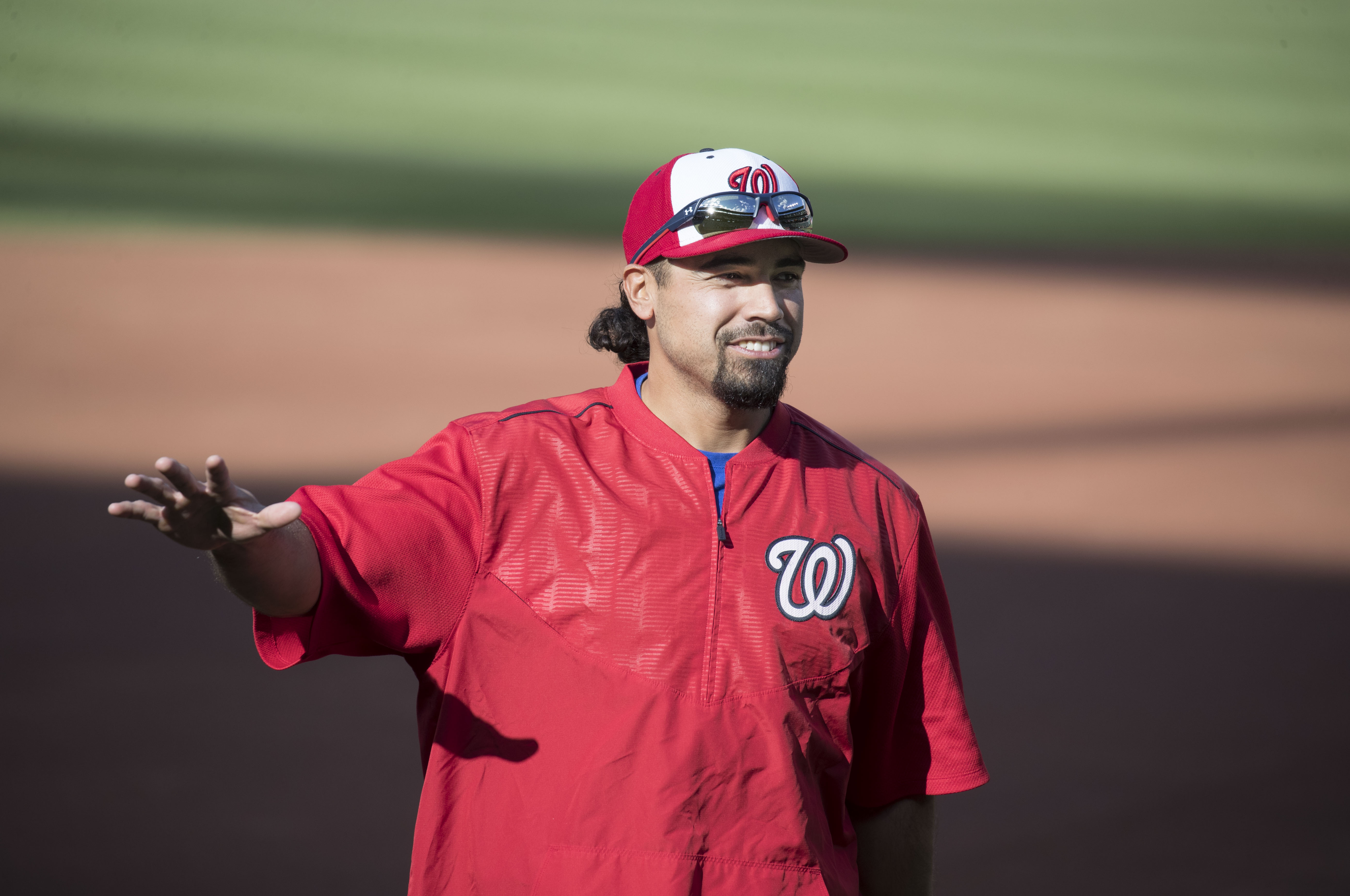 Anthony Rendon of the Washington Nationals during batting practice before a game against the Baltimore Orioles at Oriole Park at Camden Yards on May 8, 2017 in Baltimore, Maryland.